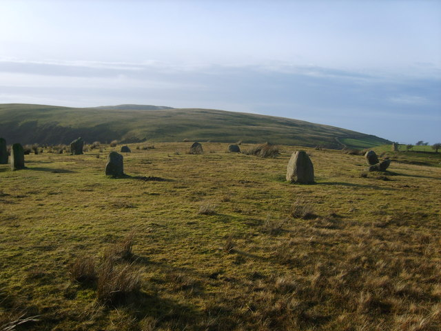 Kinninside Stone Circle On Blakeley Moss